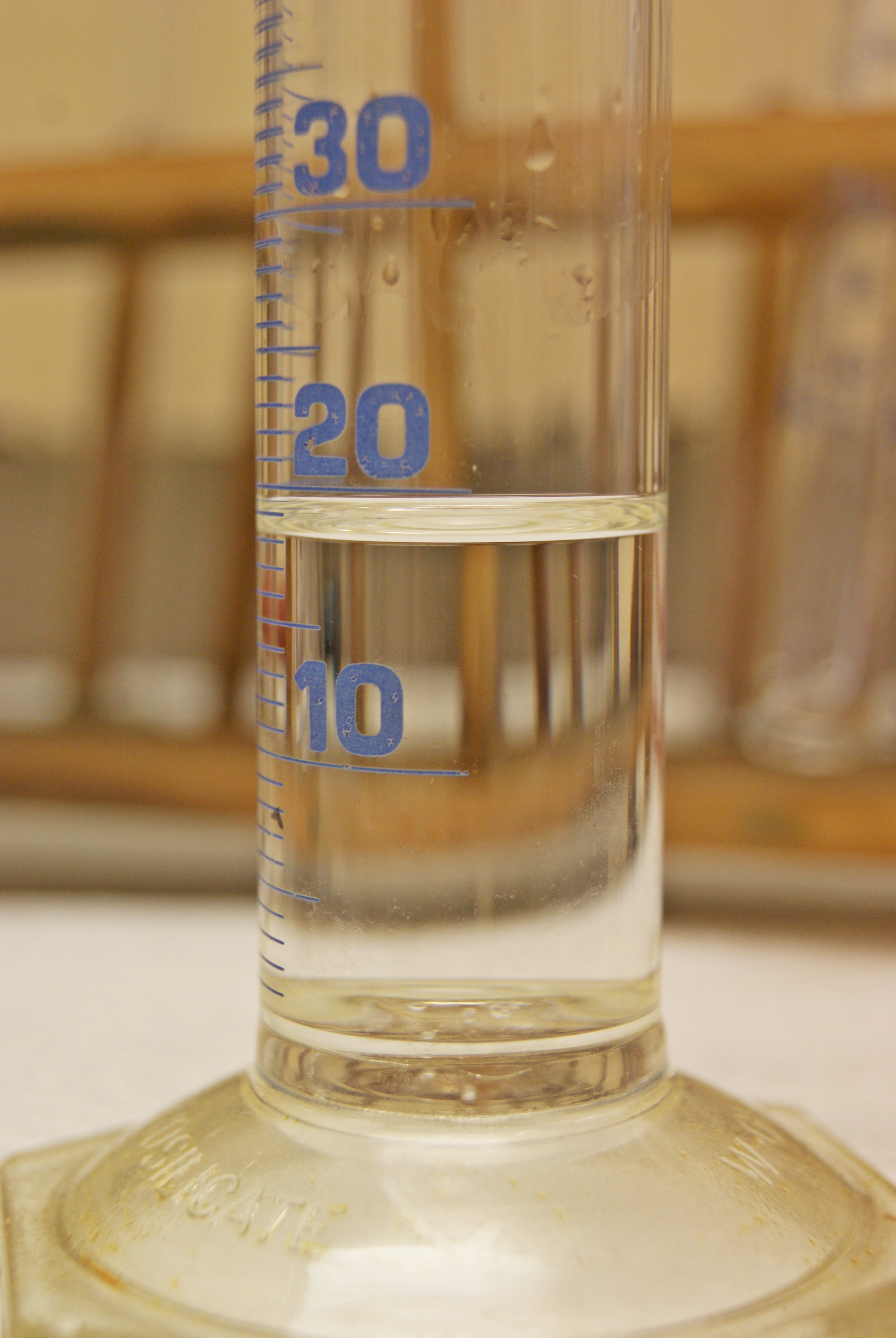 Hydrochloric acid, 30-33%